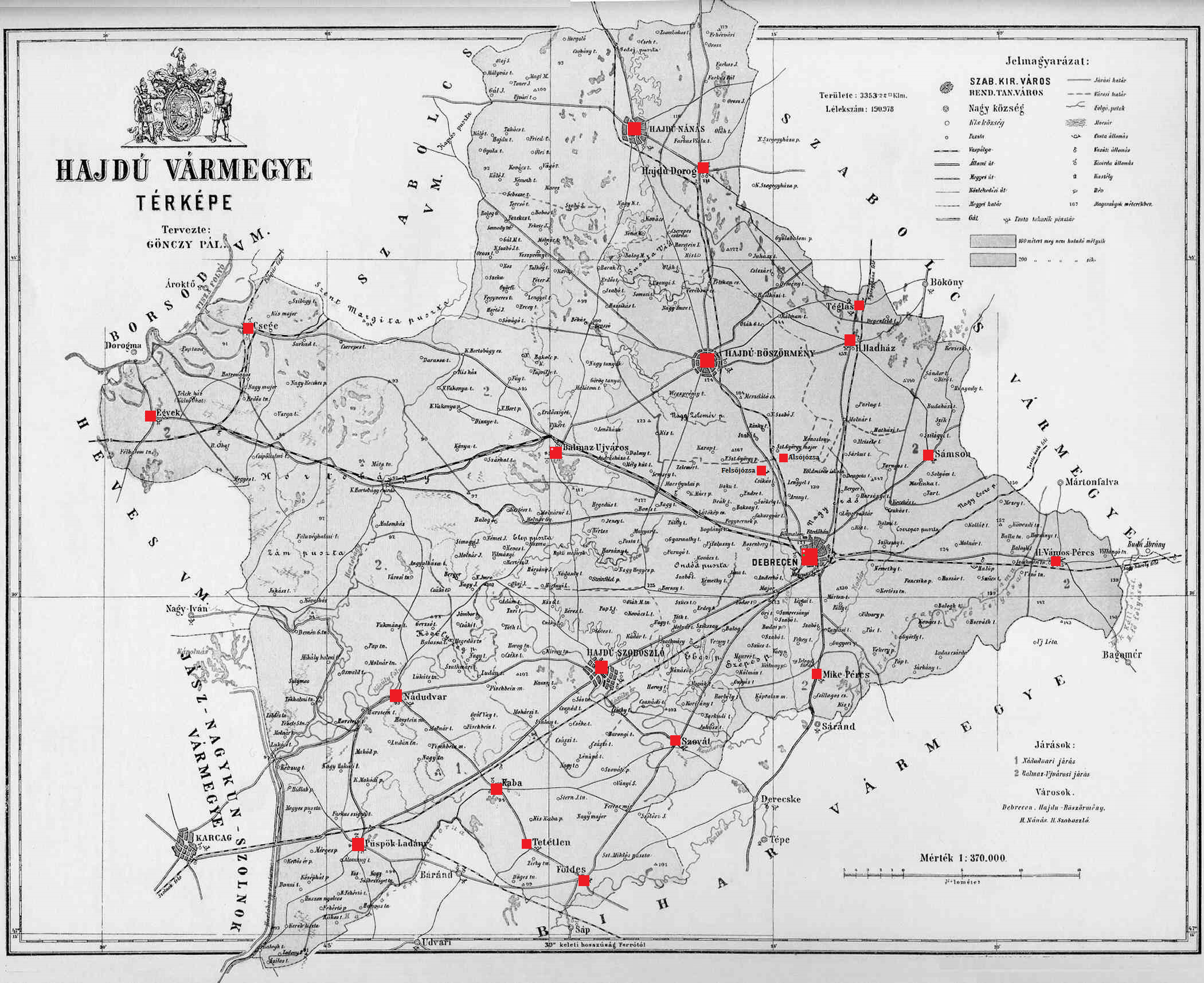 Ethnic map of the county (with data of the 1910 census). Key: red - Hungarians; pink - Germans; dark green - Romanians. Coloured dots in plain rectangles imply the presence of smaller minority populations (more than 100 people).